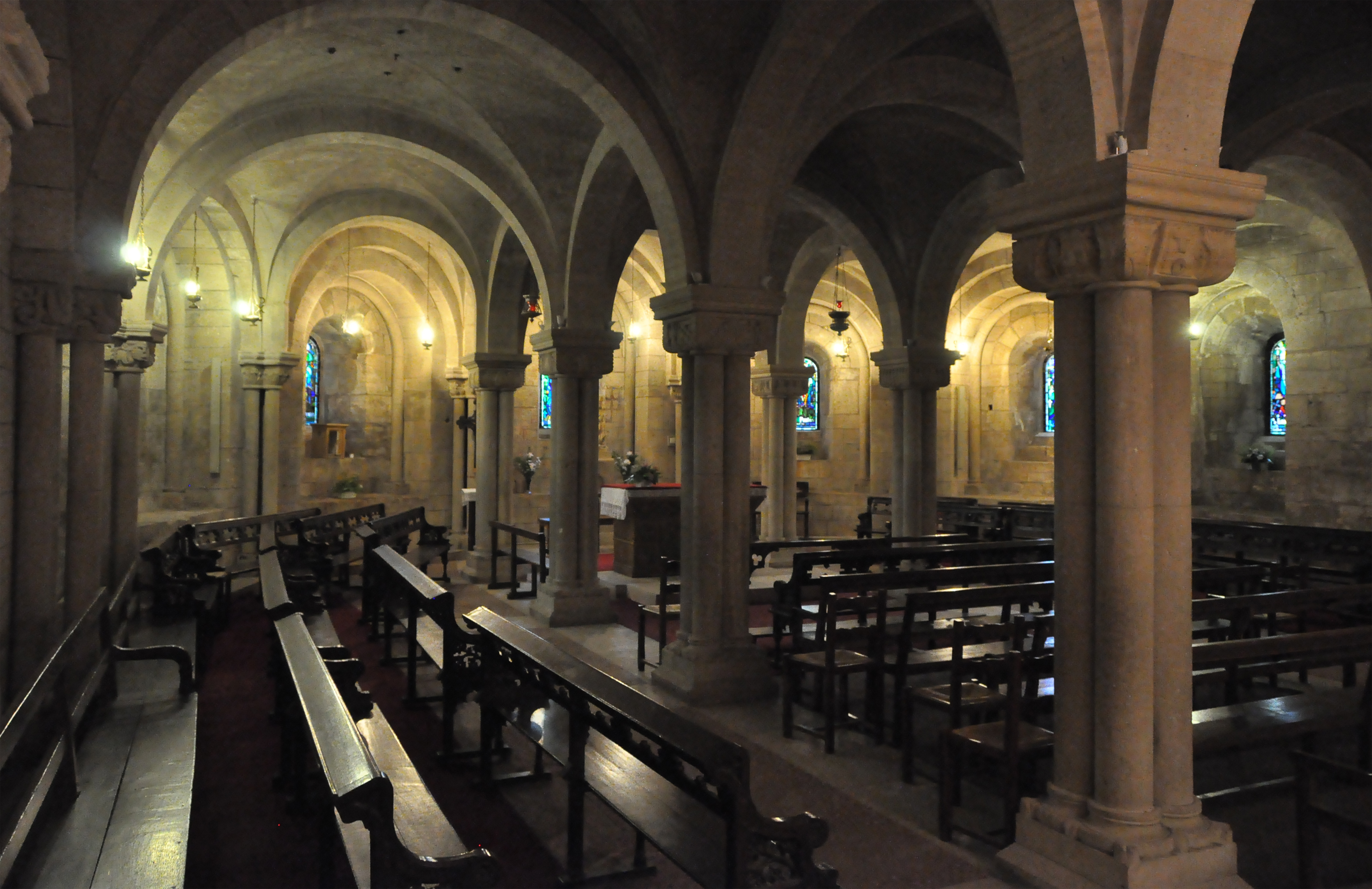 Verdun (France): Notre-Dame cathedral, the crypt